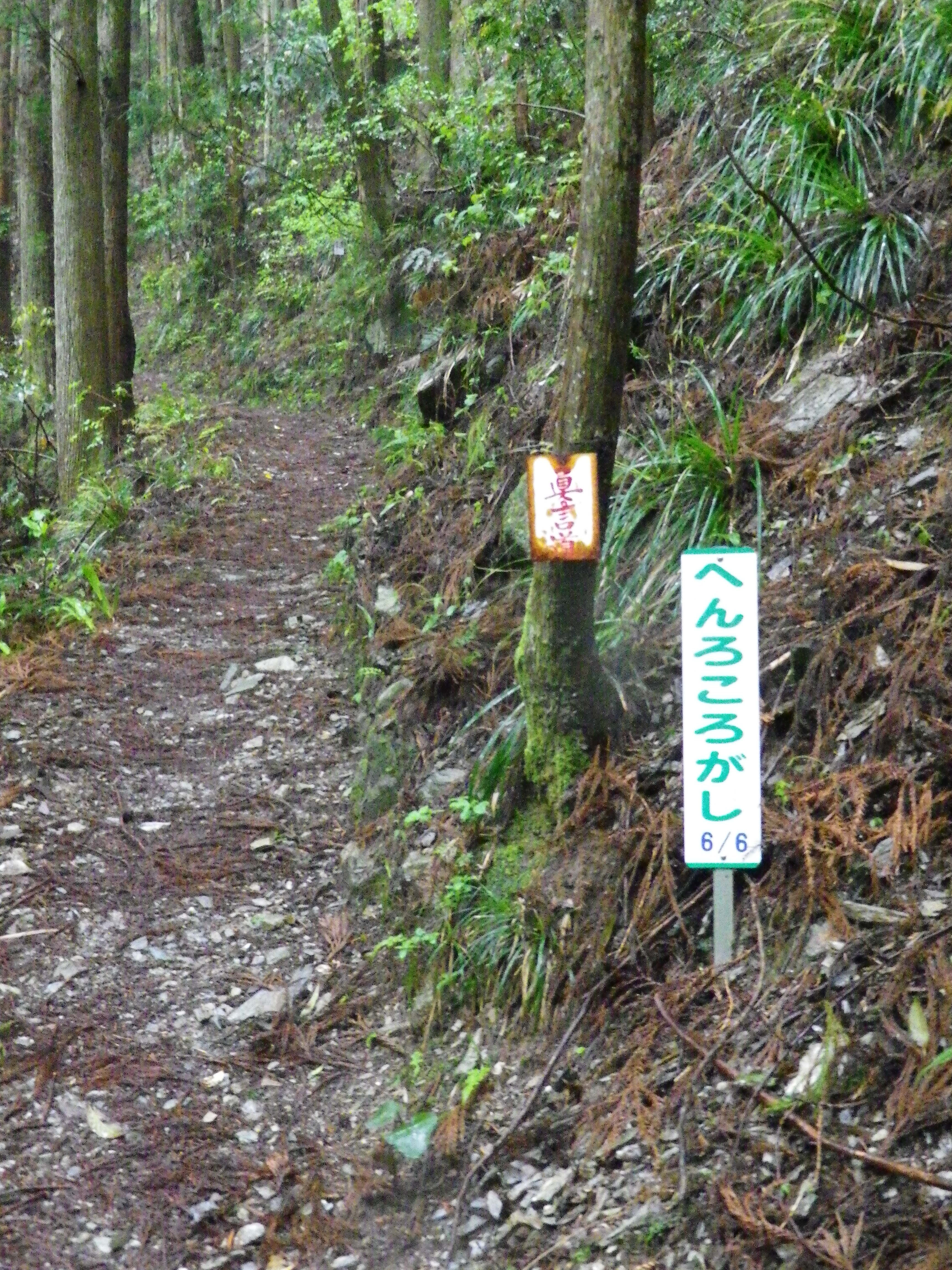 6th Henro-korogashi slope, Shōsanji-michi